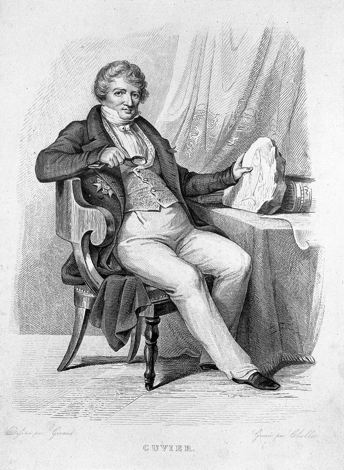 Portrait of Baron Georges Cuvier, holding a fish fossil Iconographic Collections Keywords: Georges Chretien Dagobert Cuvier; Chollet; Giraud